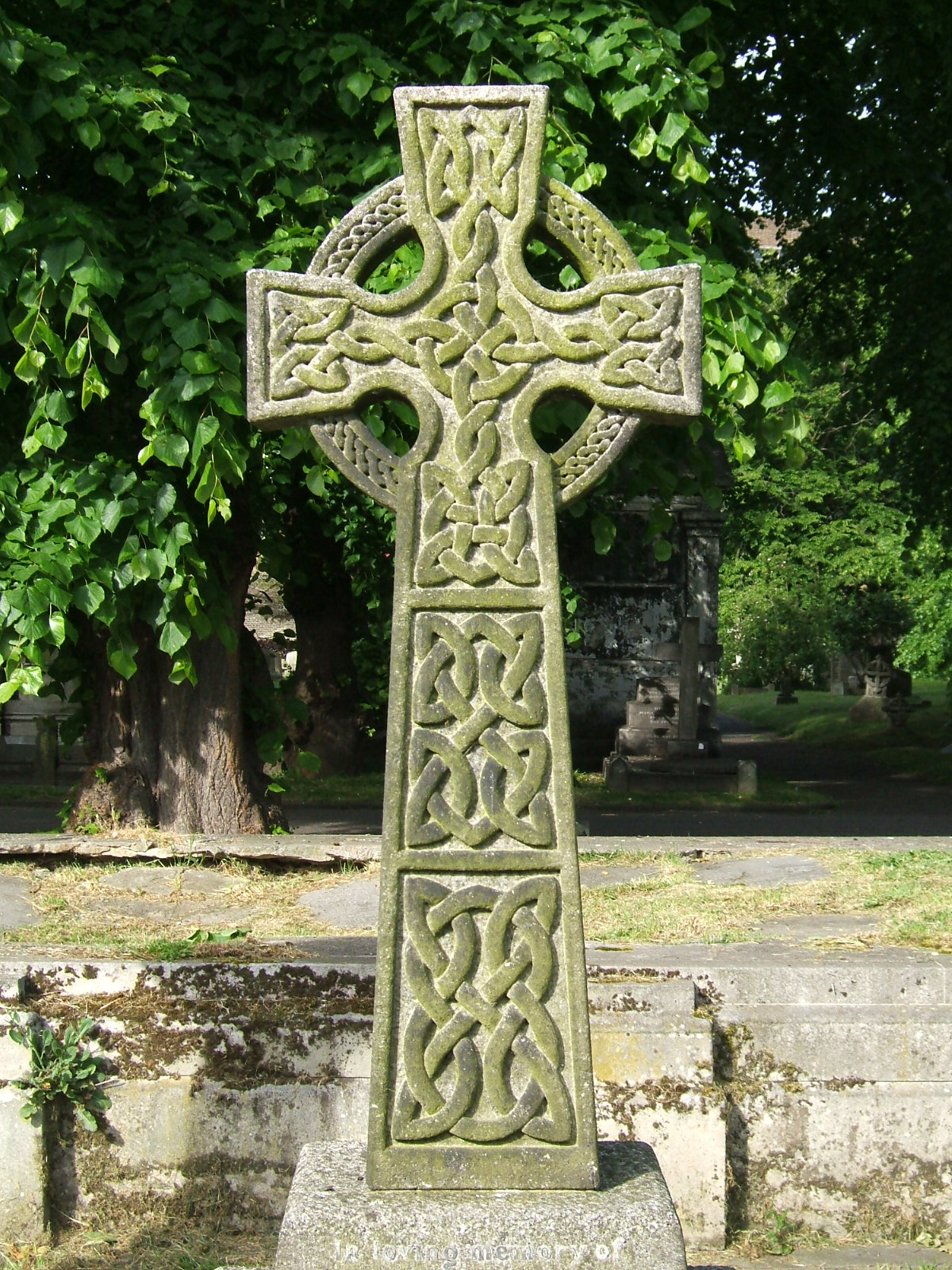 Celtic cross on a grave in Brompton Cemetery, London